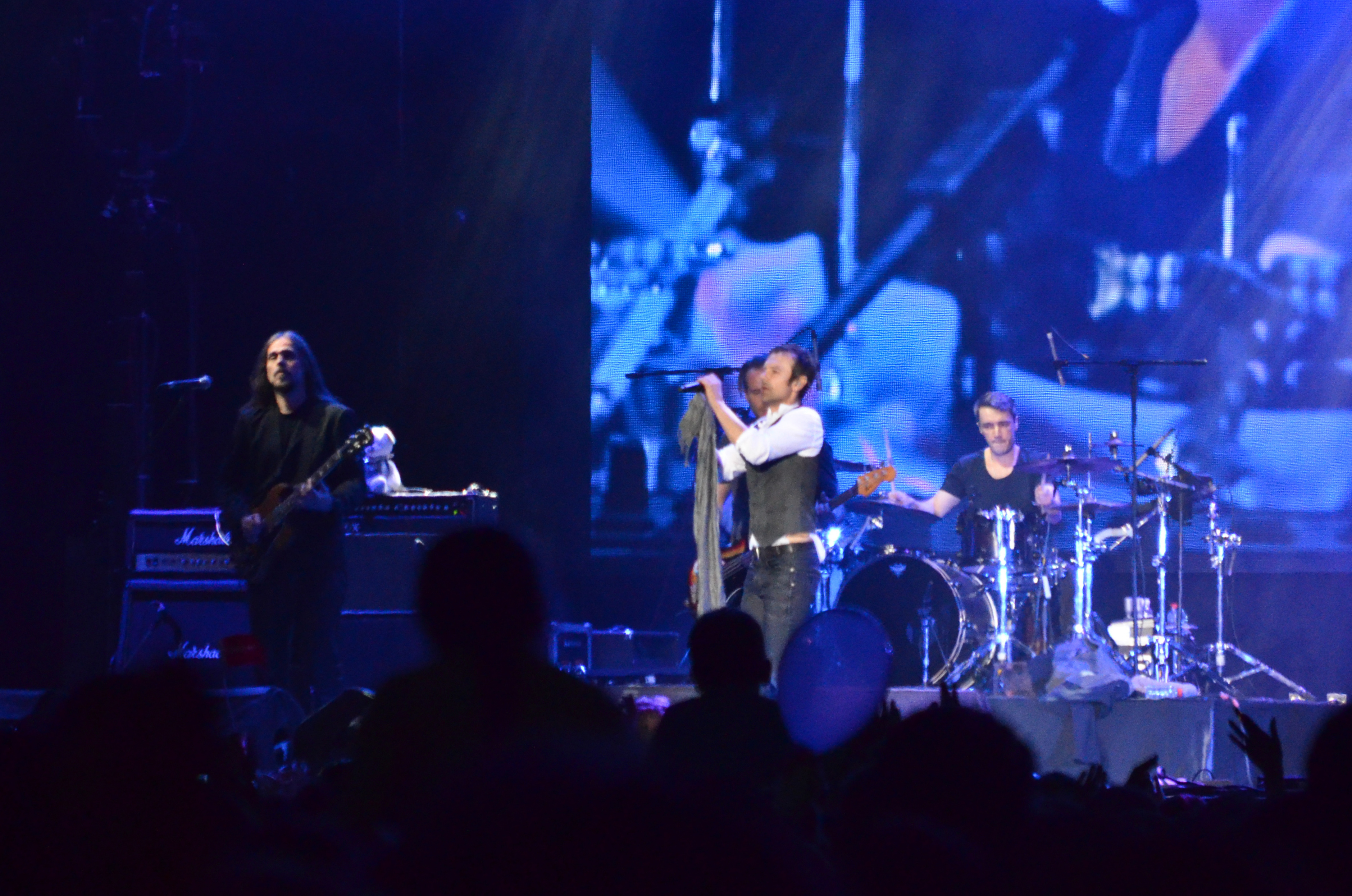 Okean Elzy at NSC Olimpiyskiy. 20 years together tour